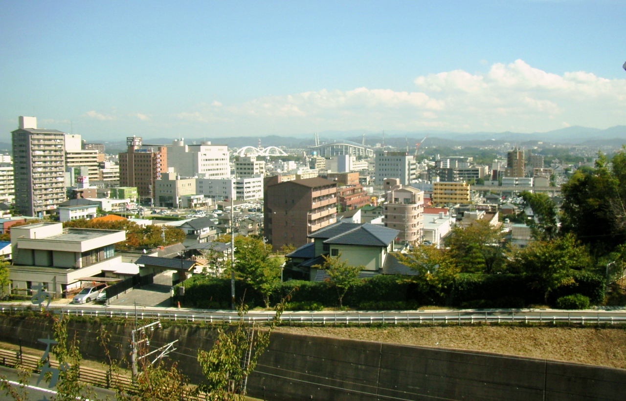 Skyline of Toyota City, Aichi Prefecture, Japan.